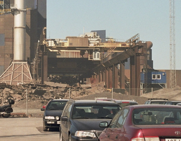 An overhead crane at what is probably the ferrochrome plant of the Outokumpu factory in Röyttä, Tornio, Finland. The lifting capacity of the crane would appear to be 80 tons.